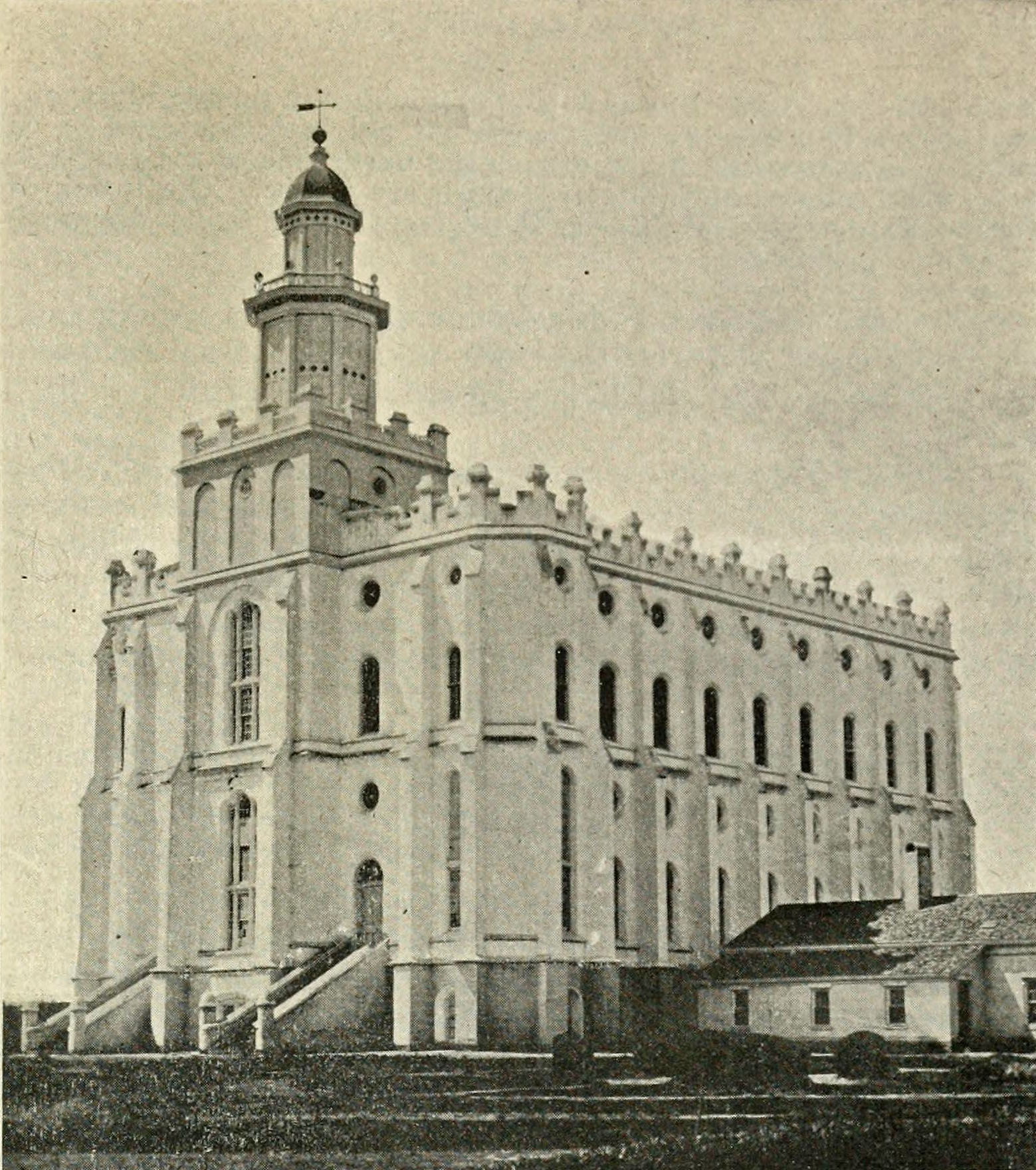 This is a photograph of the St. George Temple of The Church of Jesus Christ of Latter-day Saints published in the Improvement Era magazine. This building was constructed in St. George, Utah. It is still in use today.